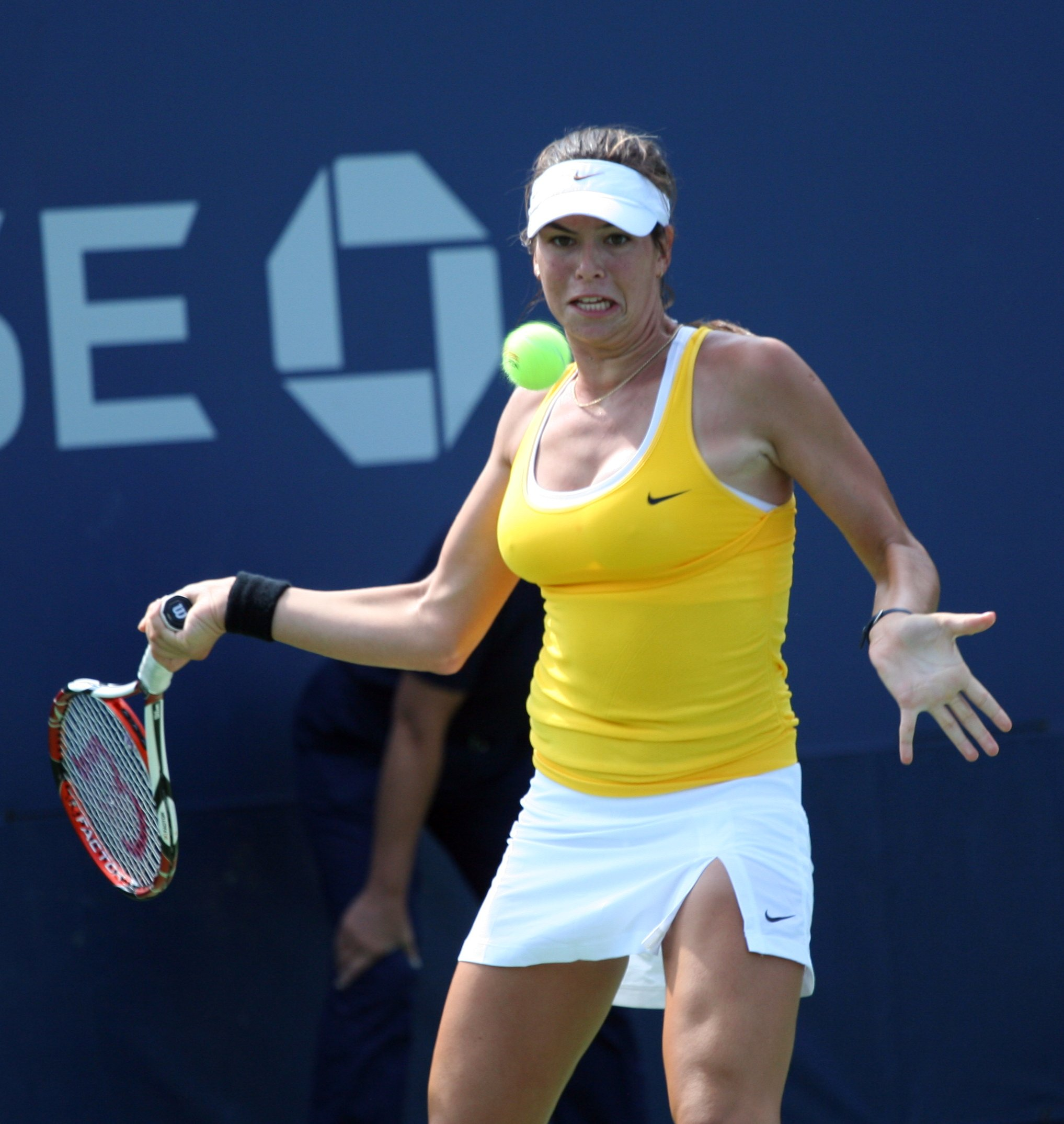 U.S. Open Juniors Sunday, Sept. 6, 2009